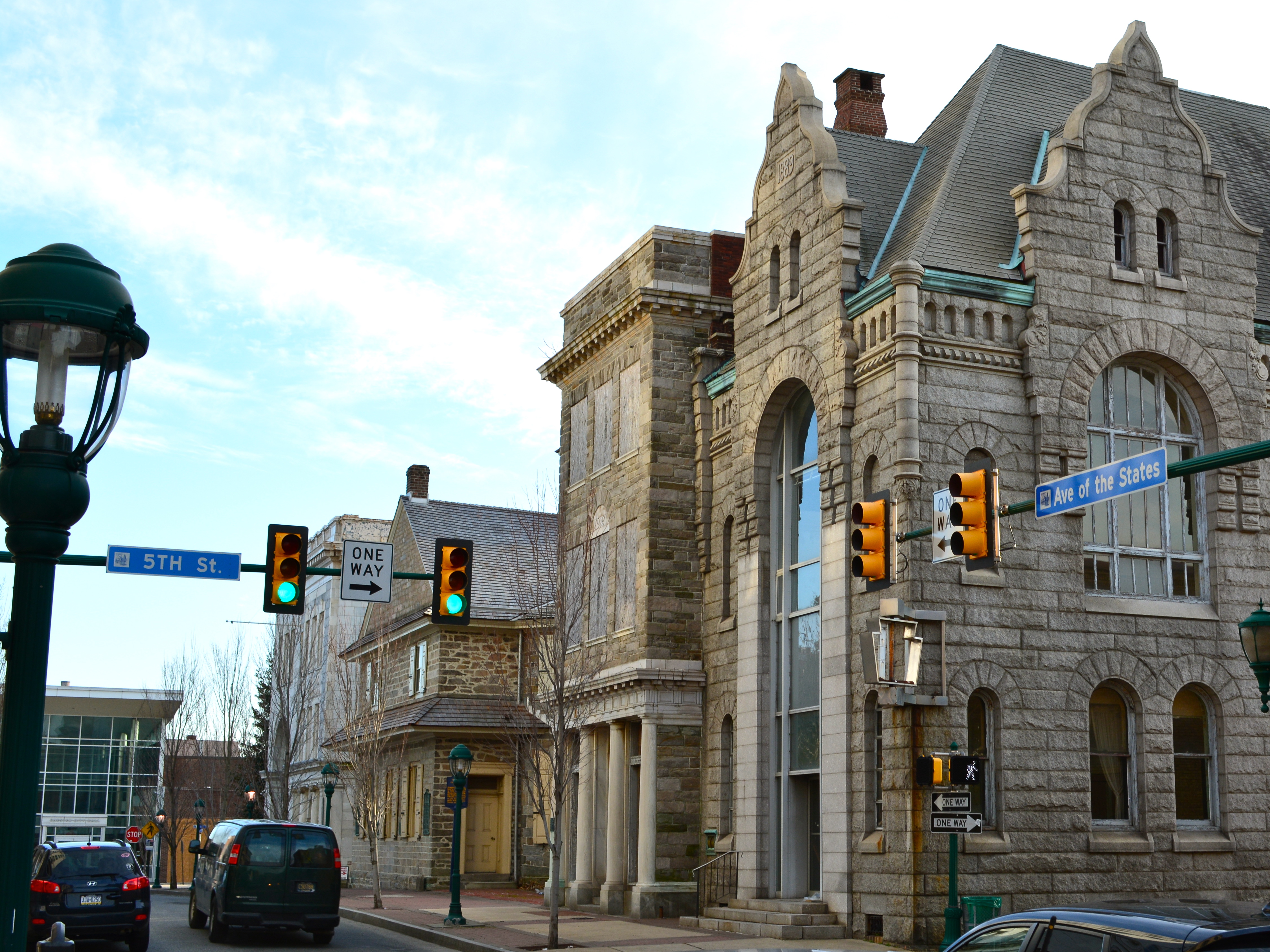 In downtown Chester, Pennsylvania an old bank building at the corner of 5th and Avenue of the States